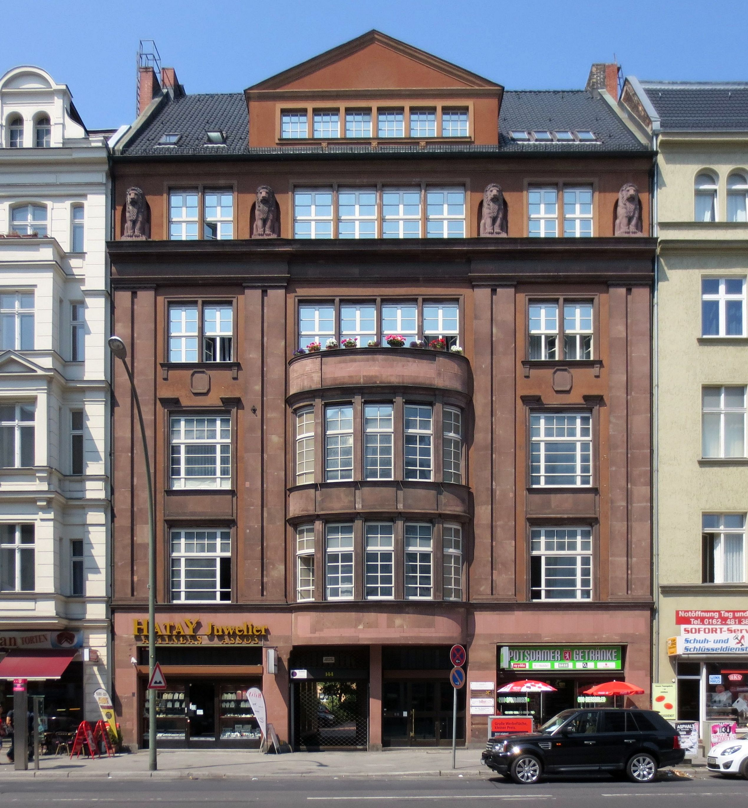 Residential and commercial building Potsdamer Strasse 144 at Berlin-Schöneberg. The house was built from 1907 to 1908 to a design by Rudolf Zahn. It has been designated as a cultural heritage monument.